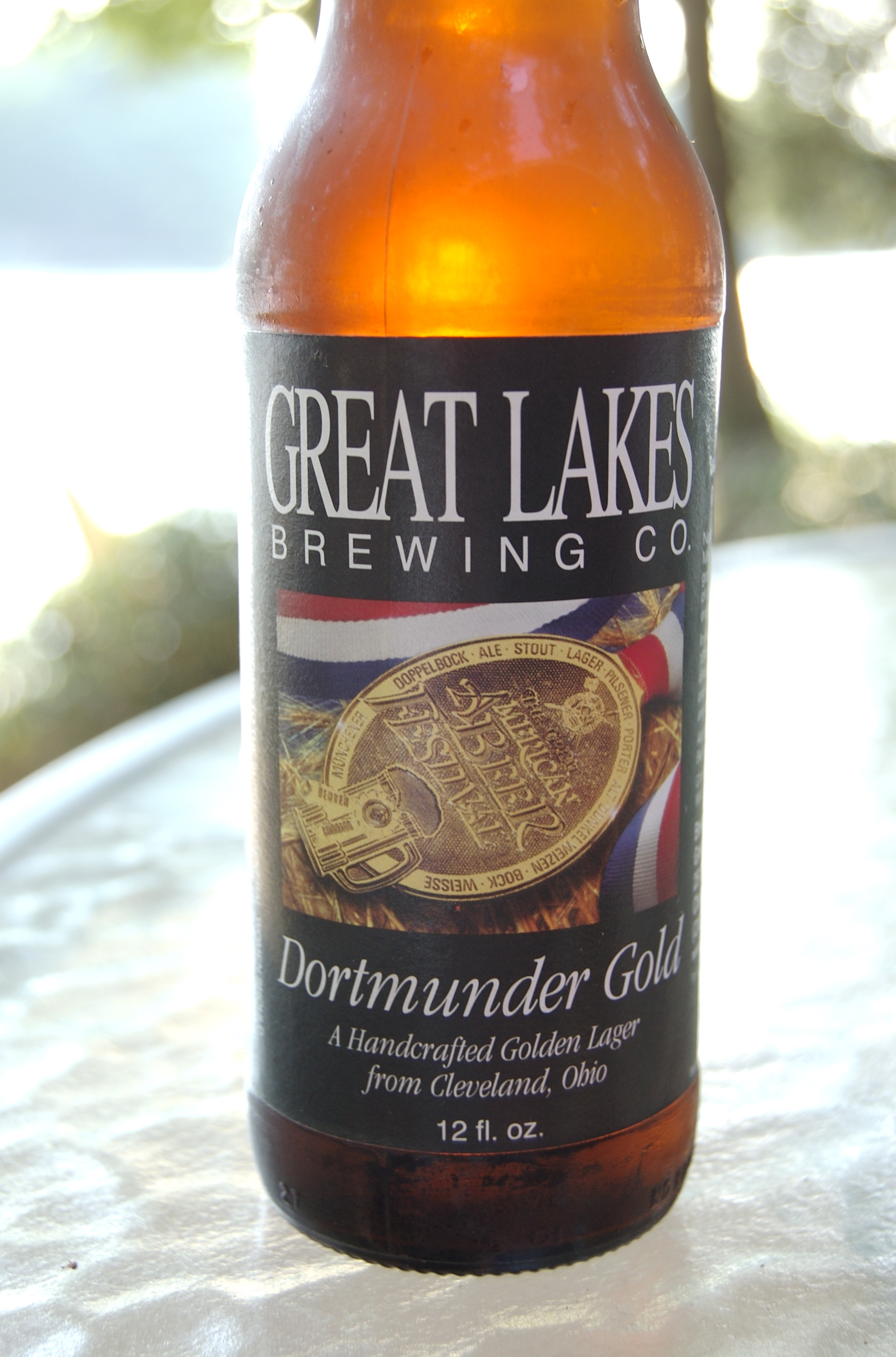 A bottle of Dortmunder Gold pale lager beer, produced by Great Lakes Brewing Company of Cleveland, Ohio, United States. Photo taken at Lake Roaming Rock, near Roaming Shores, Ohio, United States (about 30 minutes east of Cleveland, in Ashtabula County) with a Nikon D40 digital camera.